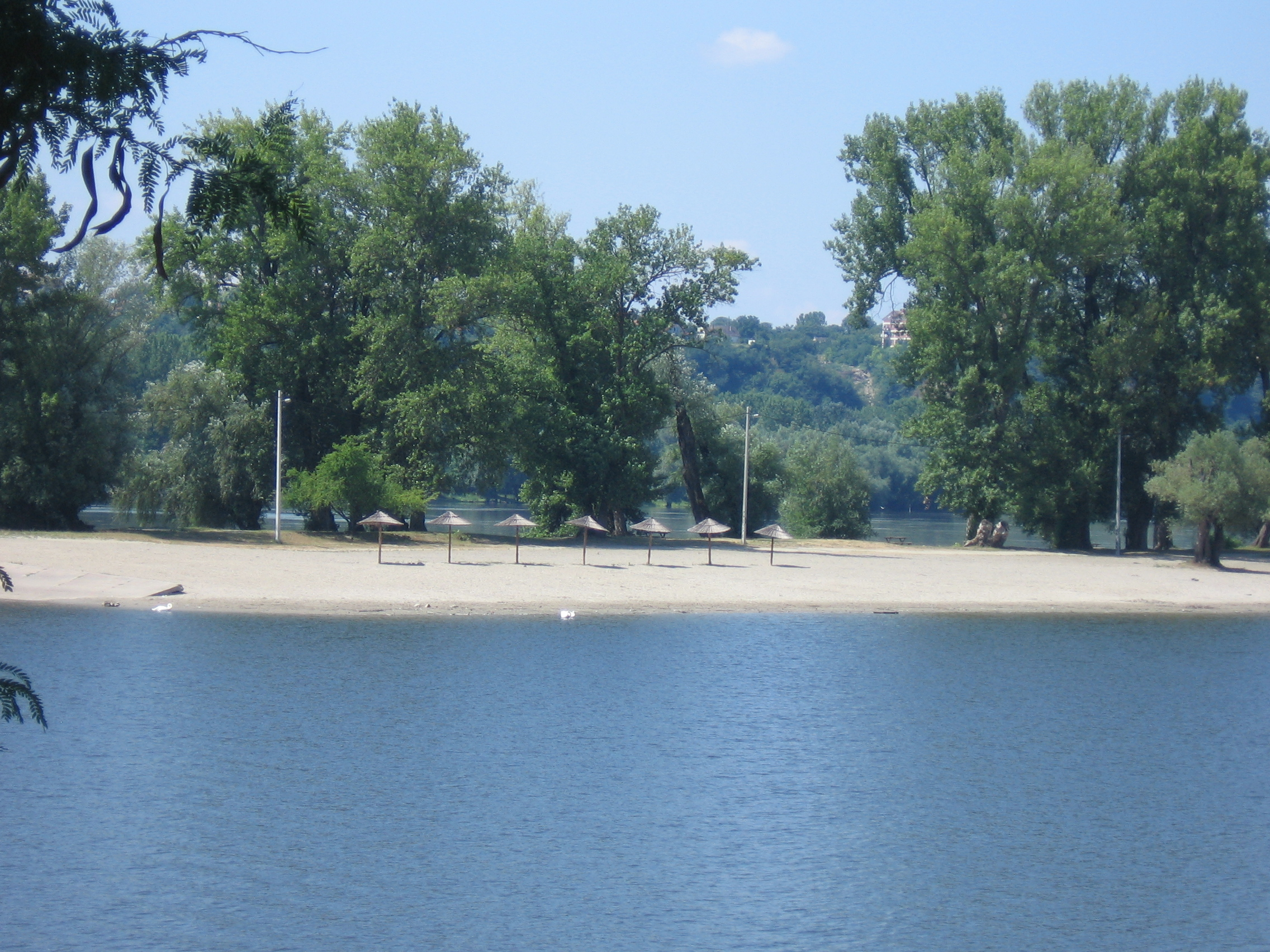 Beach in nature park "Tikvara", Backa Palanka